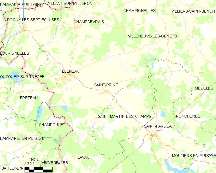 Map of French municipality Saint-Privé